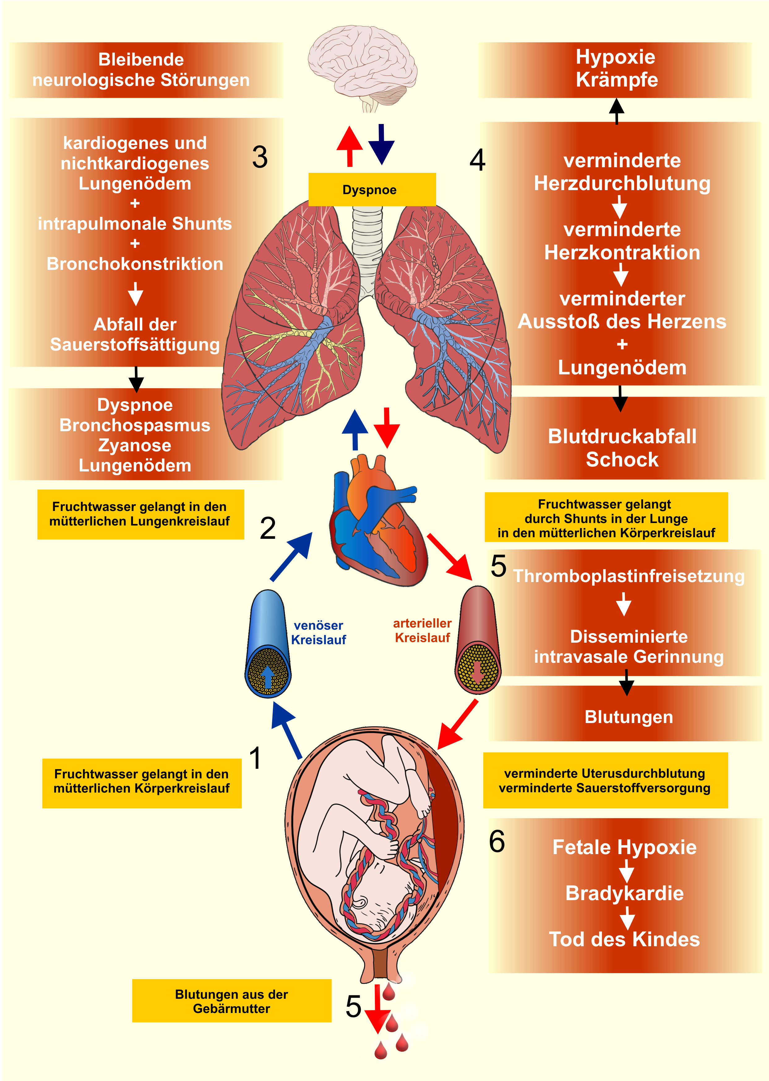 Pathophysiology of the amniotic fluid embolism (the arrows indicate the oxygen content of the blood: red – rich in oxygen, blue – poor in oxygen)